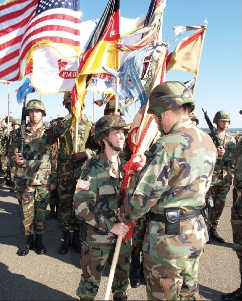 Brig. Gen. Rebecca S. Halstead accepts the colors of the 3rd Corps Support Command from V Corps Commander Lt. Gen. Ricardo S. Sanchez during a change of command ceremony at Wiesbaden Army Airfield, Germany Sept. 2. 2004